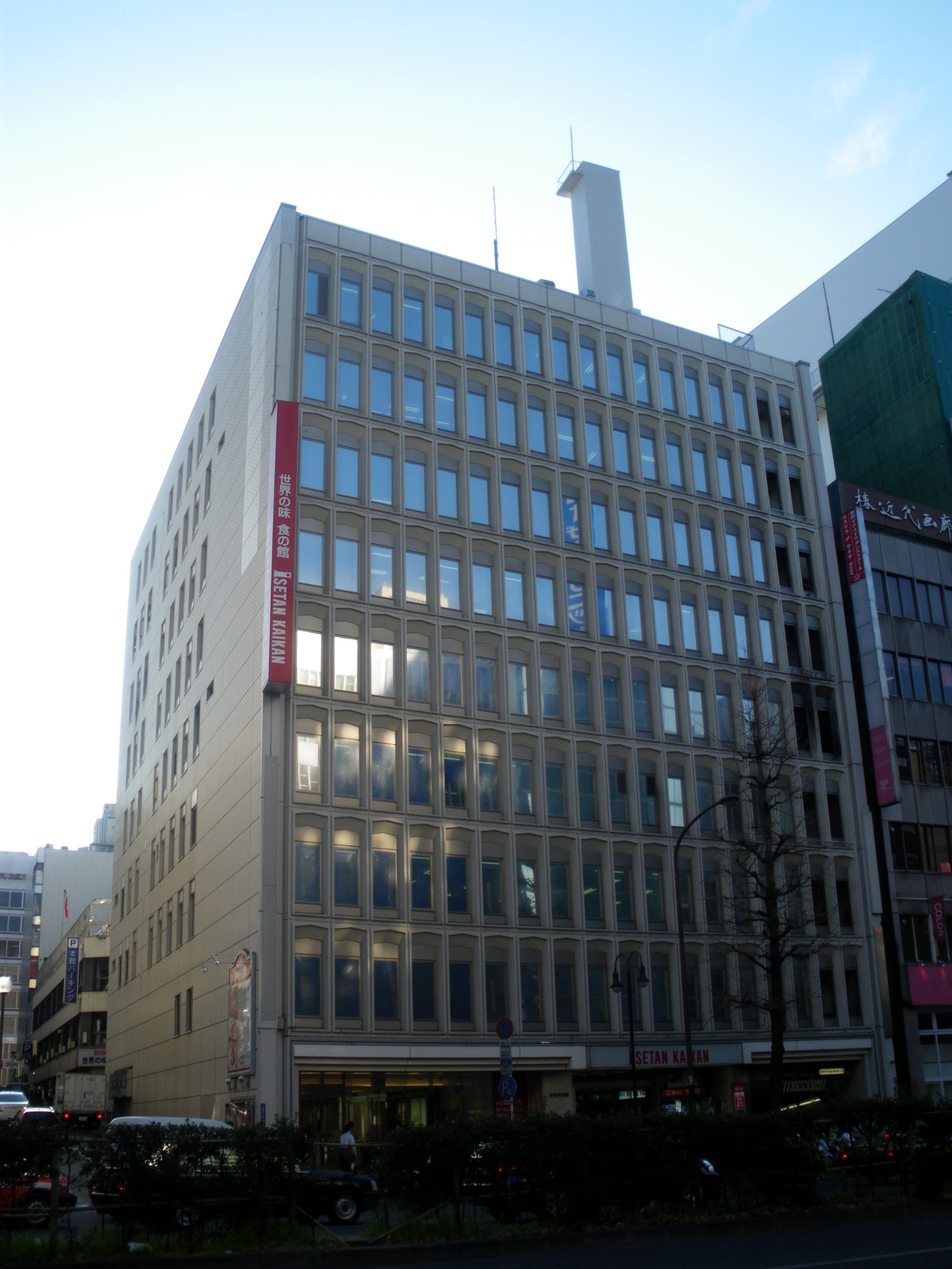 A photo of ISETAN KAIKAN,an annex of ISETAN department store Shinjuku store.Shinjuku,Shinjuku-ku,Tokyo,Japan.